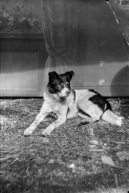 1 negative : glass, wet collodion, b&w ; 11 x 16.5 cm.